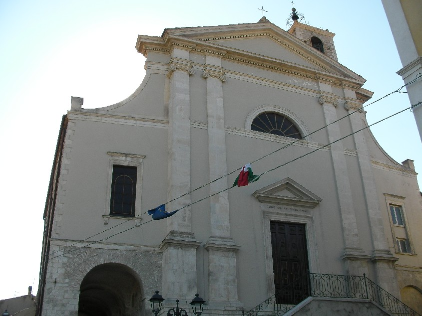 The church of Saint Maria Maggiore to Casoli